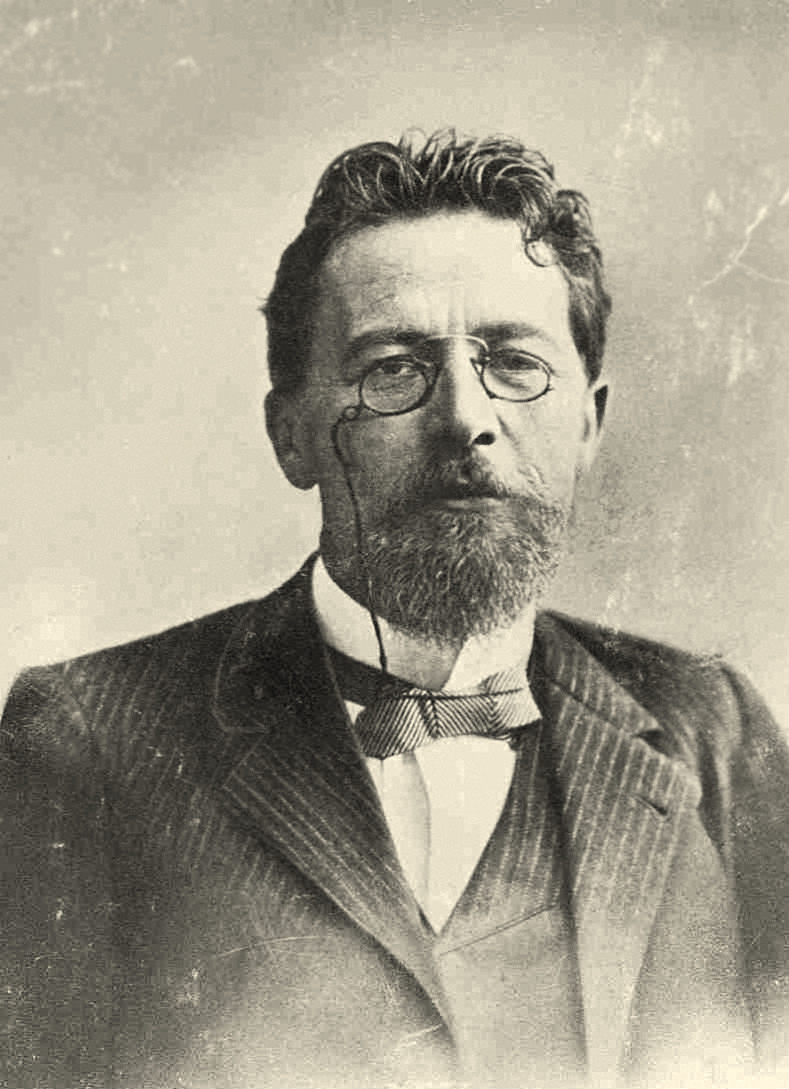 Anton Chekhov. Moscow, 1901.